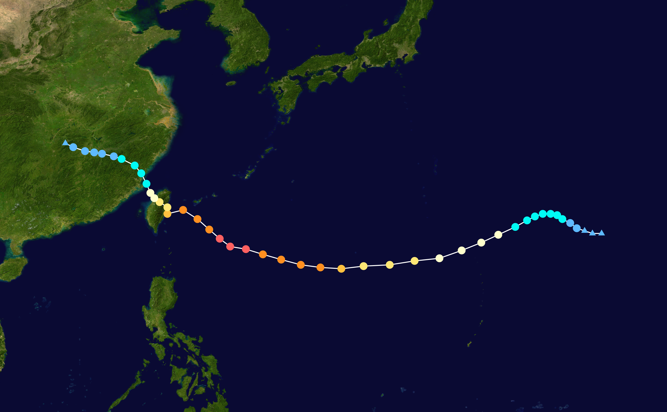 Track map of Typhoon Haitang of the 2005 Pacific typhoon season. The points show the location of the storm at 6-hour intervals. The colour represents the storm's maximum sustained wind speeds as classified in the Saffir–Simpson scale (see below), and the shape of the data points represent the nature of the storm, according to the legend below. Saffir–Simpson scale Tropical depression≤38 mph≤62 km/h Category 3111–129 mph178–208 km/h Tropical storm39–73 mph63–118 km/h Category 4130–156 mph209–251 km/h Category 174–95 mph119–153 km/h Category 5≥157 mph≥252 km/h Category 296–110 mph154–177 km/h Unknown Storm type Tropical cyclone Subtropical cyclone Extratropical cyclone / Remnant low / Tropical disturbance / Monsoon depression